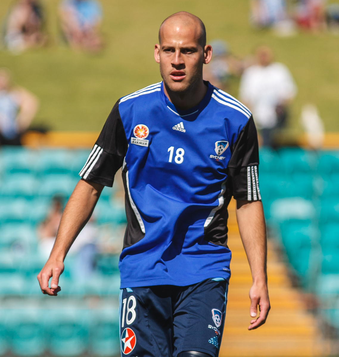 Trent McClenahan warming up for a pre-season match between Sydney FC and Newcastle Jets.